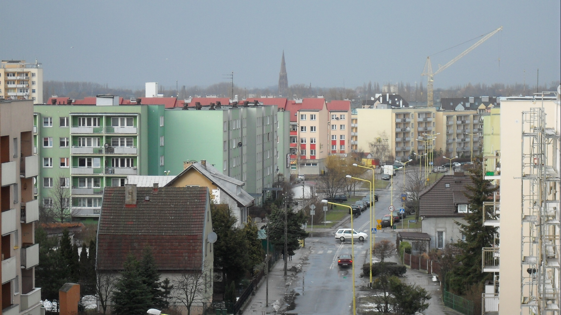 Majowe Housing Estate in Szczecin (views of the skyscraper)